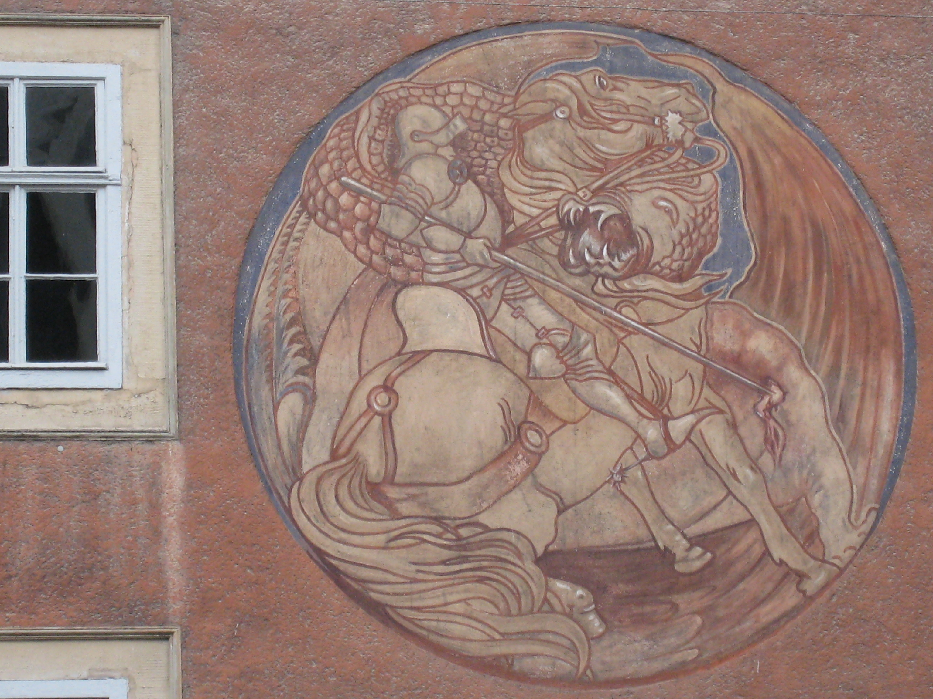 former hospital